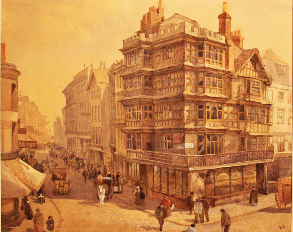 watercolour drawing of The Dutch House, Bristol 1885 by Blanche Baker